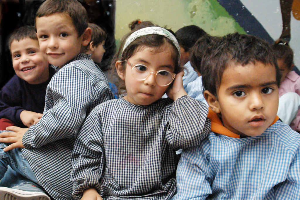 Montevideo, Uruguay